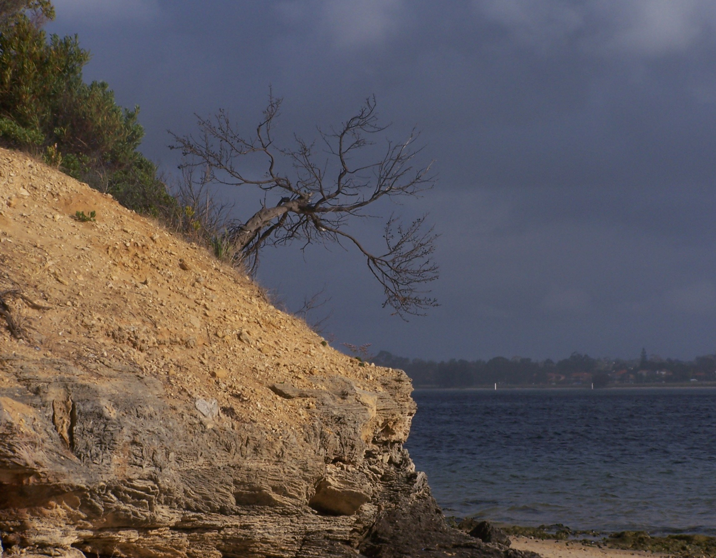 Point Resolution in the suburb of Dalkeith on the Swan river, Western Australia. Image has been edited to remove a 3o horizional tilt